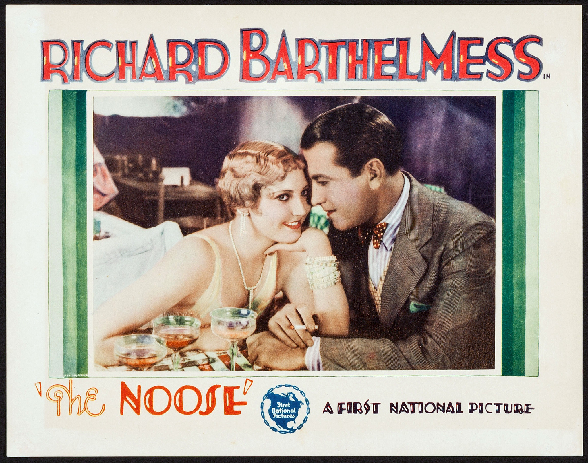 Lobby card for the American drama film The Noose (1928). The item has no copyright markings on it as can be seen in the links above. At lower left is Country of origin USA.